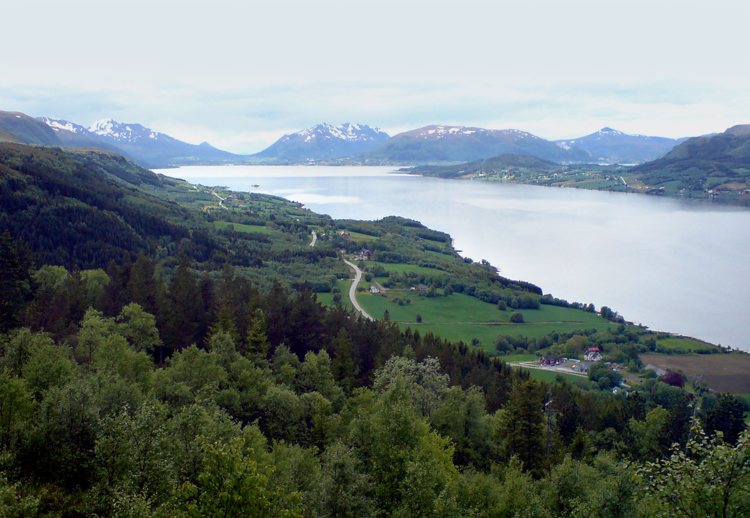 From Storlandet at Stokke. Ahead Eide and right Averøy